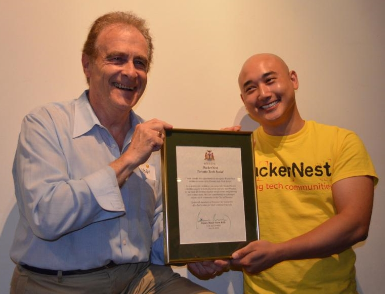 Photo of HackerNest founder receiving award from the City of Toronto's Deputy Mayor Norm Kelly on July 28, 2014